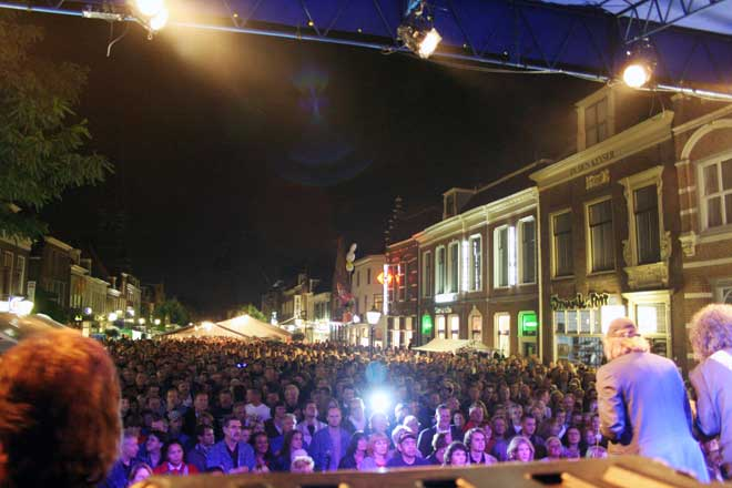 Cuby + Blizzards op Culemborg Blues 2006